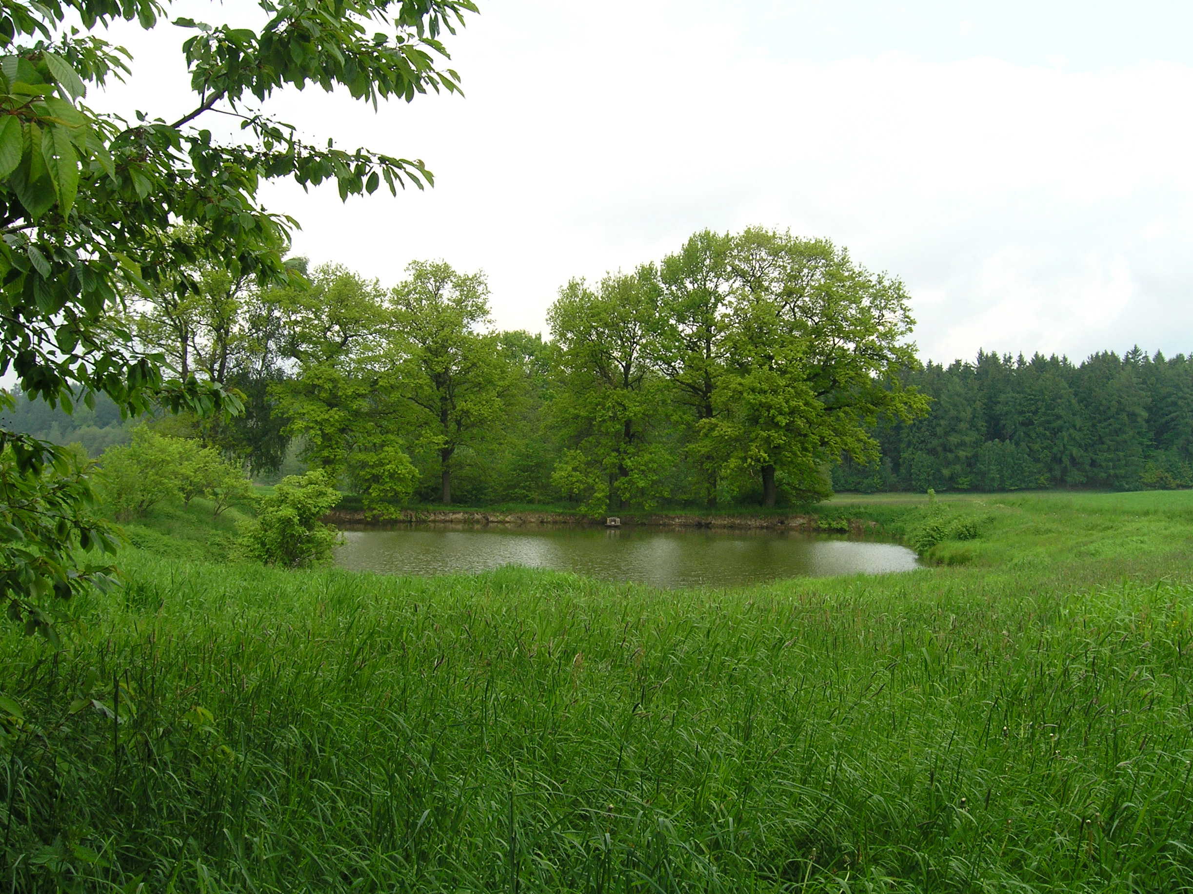 Horní Nejepín pond in Nejepín village, Czech Republic